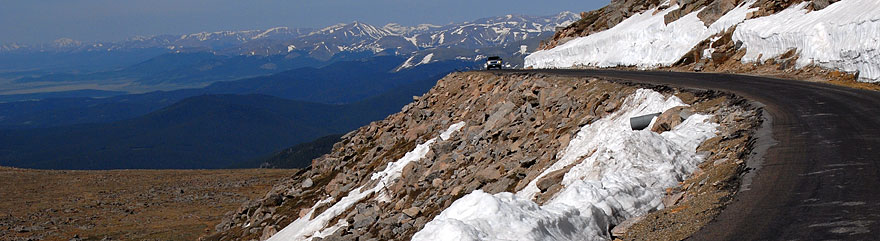 Mt Evans road (Colorado, USA) - near 14,411 ft (4,308 meters) road top